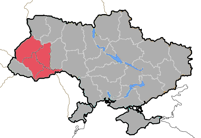 Map of roman-catholic dioceses in Ukraine - Lviv diocese location